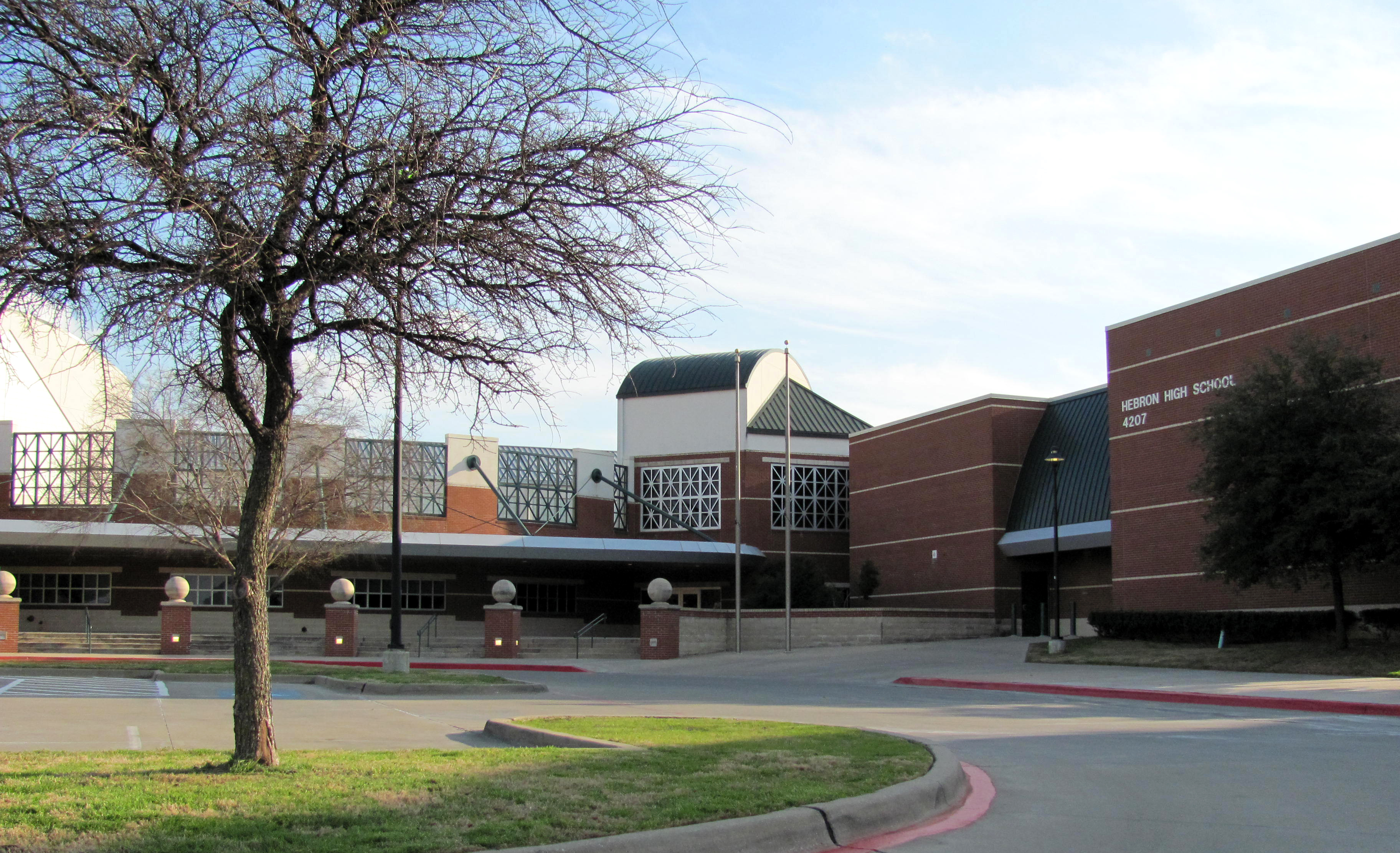 The front of Hebron High School in Carrollton, Texas. Part of the Lewisville Independent School District.